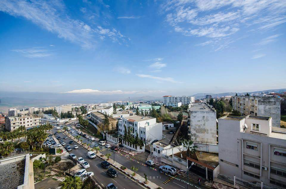 La ville de Mila